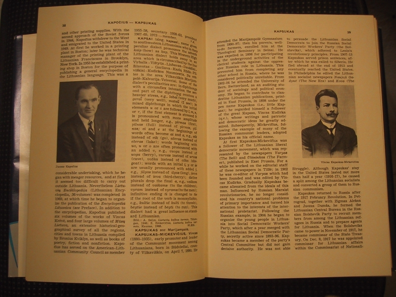 Encyclopedia Lituanica, opened to show article on publisher Juozas Kapočius. Encyclopedia published in 1970-1978 in Boston, Massachusetts. My own photo.